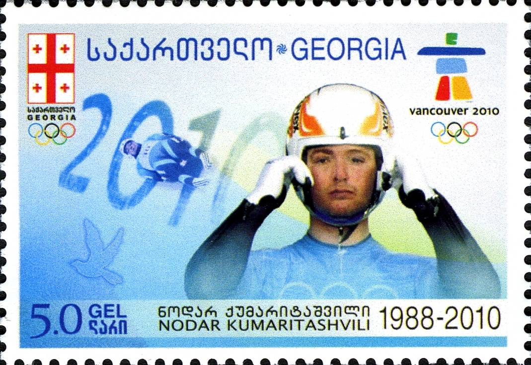 Postal Stamp of Georgia - Nodar Kumaritashvili died at 2010 Vancouver Olympic Games